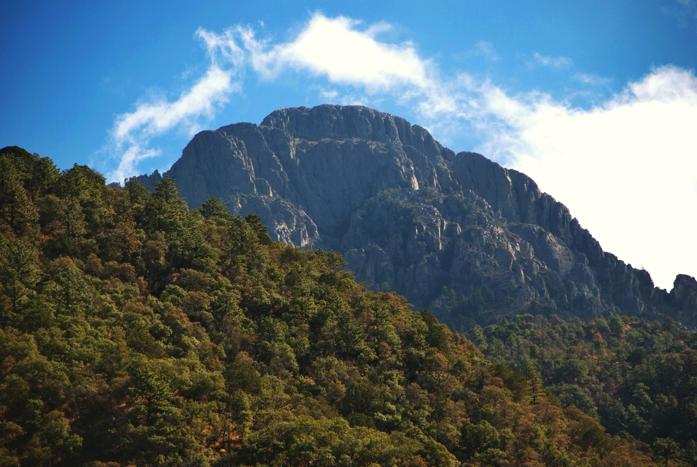 Mount Wrightson from Madera Canyon